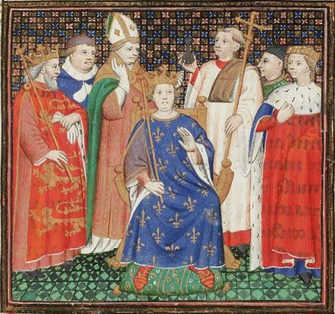 Vincent of Beauvais, Le Miroir Historial (Vol. IV). The coronation of Philip II Augustus in the presence of Henry II of England Place of origin, date: Paris, Master of the Cité des Dames (illuminator); c. 1400-1410 Material: Vellum, ff. 401, 425x320 (254x196) mm, 43 lines, littera cursiva, Binding: 18th-century brown leather; gilt; with coat of arms of Stadholder William V Decoration: 1 two-column miniature (185x200 mm); 19 column miniatures (110/70x90/85 mm); decorated initials with border decoration (ff. 3r, 10r, 15r, 19r, 20r, etc.) Added: 1 illustration in the margin (coat of arms) Provenance: acquired before 1492 by Philip of Cleves (d. 1528; coat of arms with label; signature); purchased in 1531 from his estate by Henri III, Count of Nassau (d. 1538); by descent to the Princes of Orange-Nassau, the later Stadholders, at The Hague; carried off in 1795 toParis by the French and restituted to the KB in 1816 Annotation: Vol. I-III (now: Paris, Bibliothèque Nationale de France, fr. 308-311) were decorated but not illustrated in the early 15th century. Apparently separated from their fourth volume from the beginning, they were illustrated on behalf of a later owner, Louis de Gruuthuse,in the early 1450s